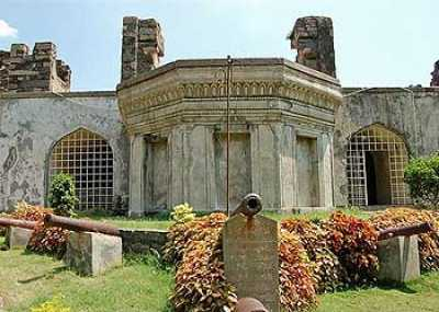 Image of Kondapalli Quilla